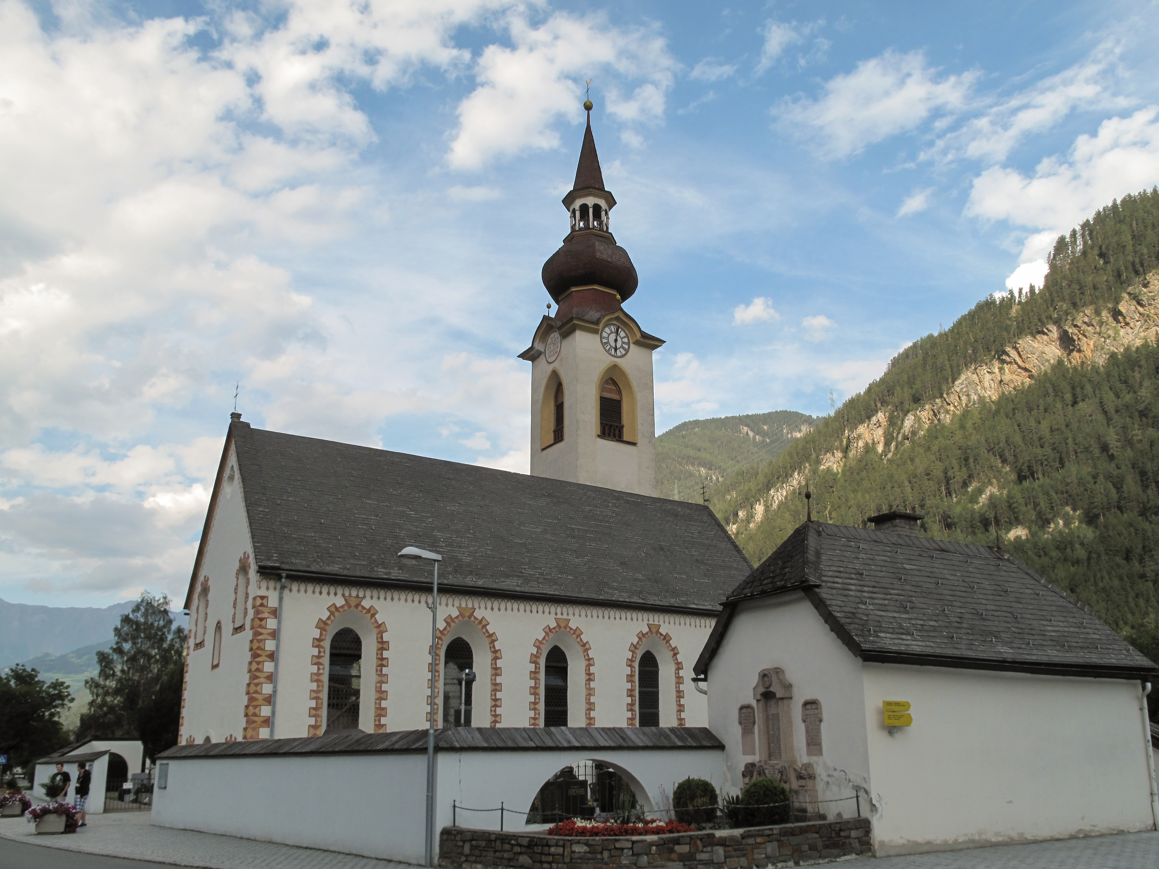 Tösens, church: Pfarrkirche Sankt Laurentius